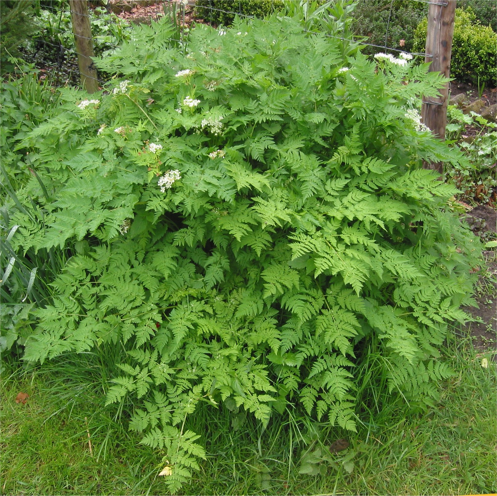 Myrrhis odorata